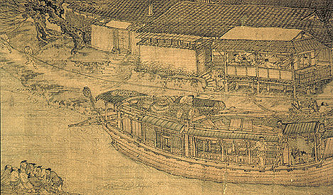 Close-up detail of the Chinese cityscape handscroll Along the River During Qingming Festival, ink and colors on silk, 25.5 × 525 cm.